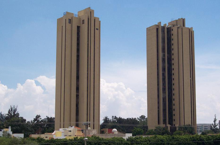 Description: Condominiums near Country Club Source: Own Job Date: 03-09-04